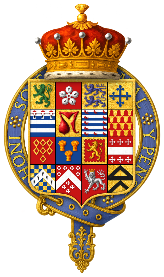 Coat of arms of Sir Robert Dudley, 1st Earl of Leicester, KG Quarters based on those displayed in the famous portrait of Sir Robert in the The Rothschild Collection at Waddesdon. These quarters also appear on the tomb of his sister, Mary Sidney, wife of Sir Henry Sidney, KG.